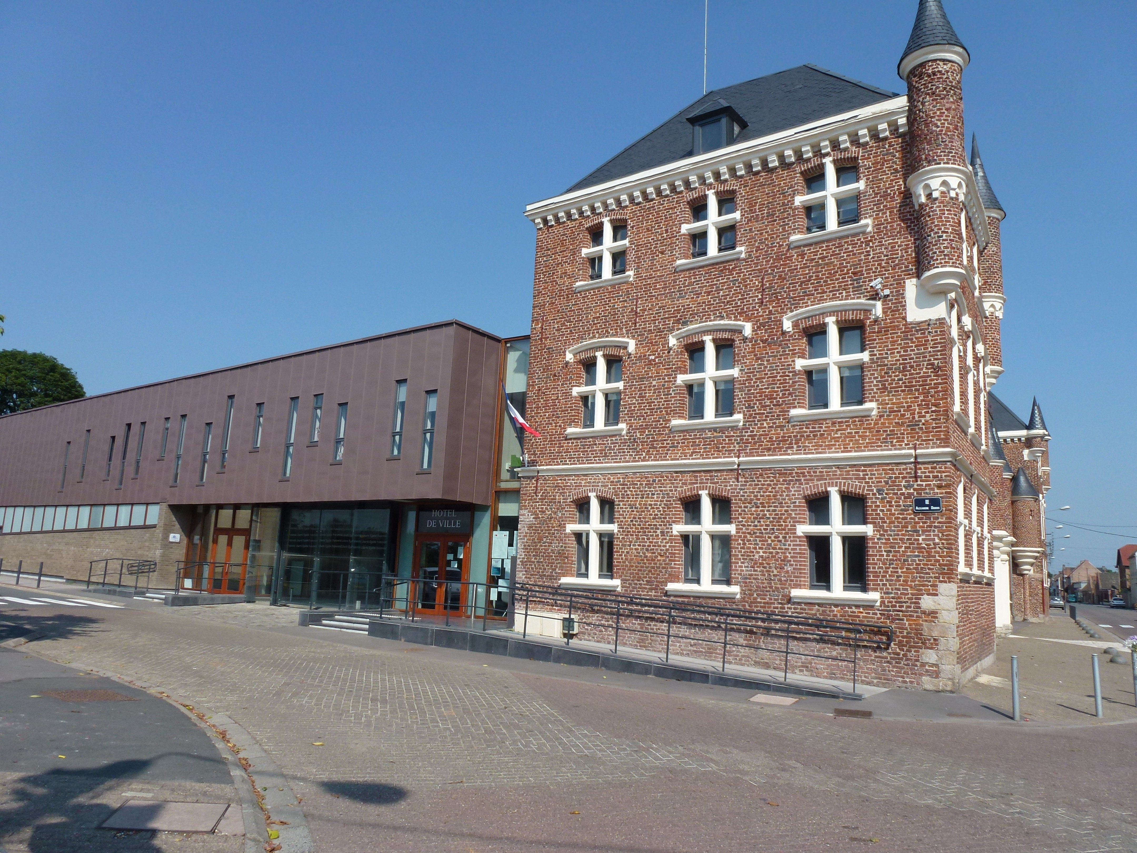 Auby (Nord, Fr) mairie